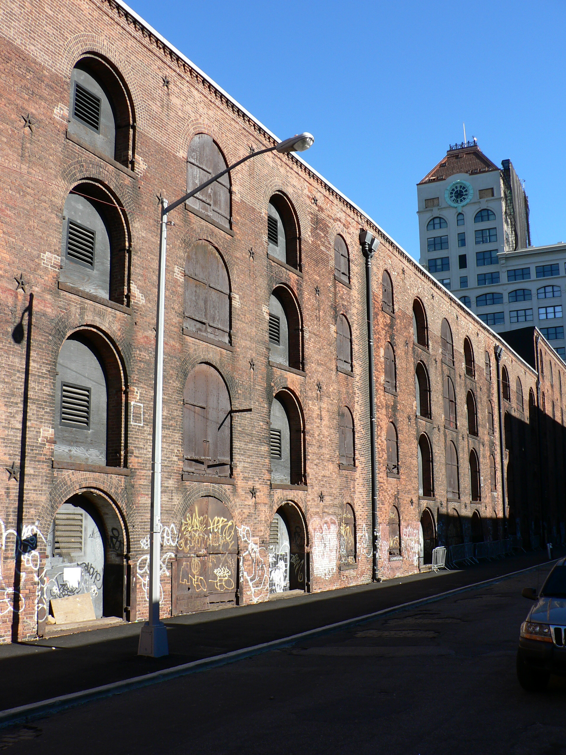 Richard Scholz, own photo. Looking east along Water Street.